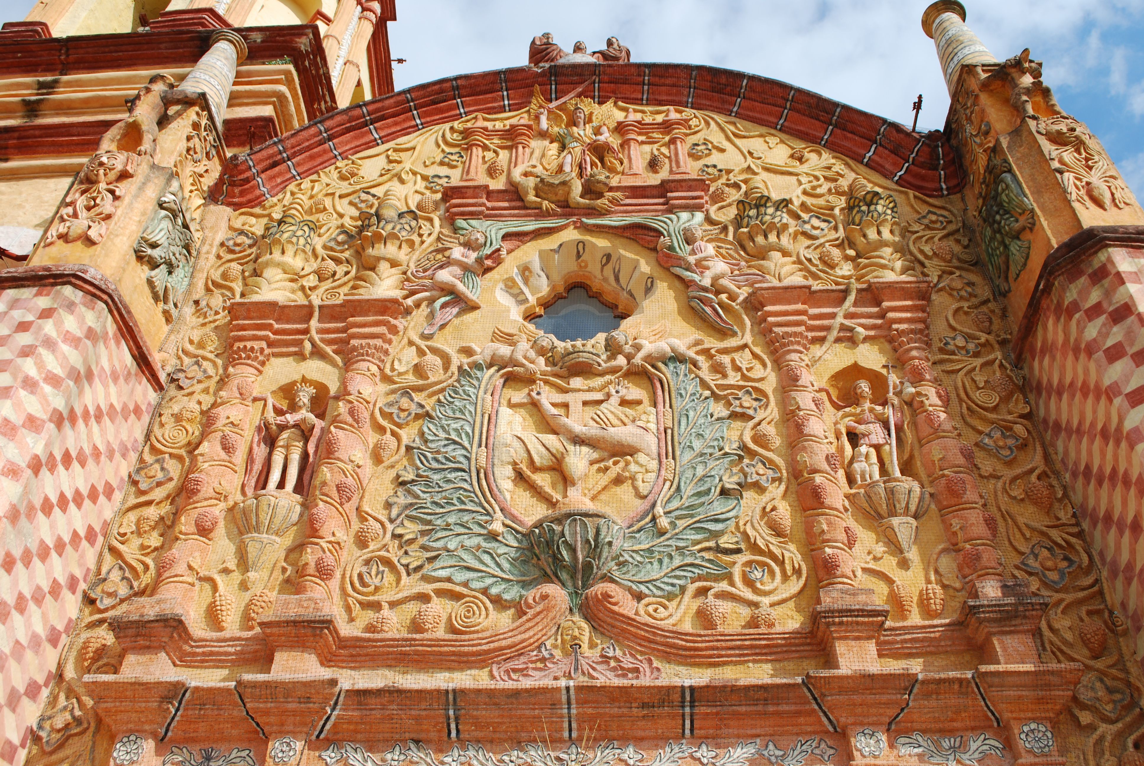 View of the upper portal of the mission church of Concá, Arroyo Seco, Querétaro